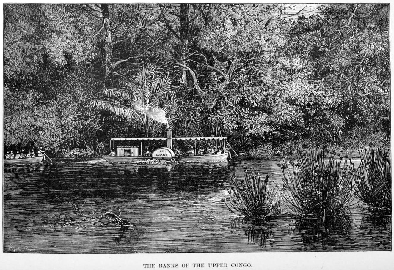 Steamship and the banks of the Upper Congo River. Pictures excerpted from HM Stanley's book "The Congo and the founding of its free state; a story of work and exploration (1885)"